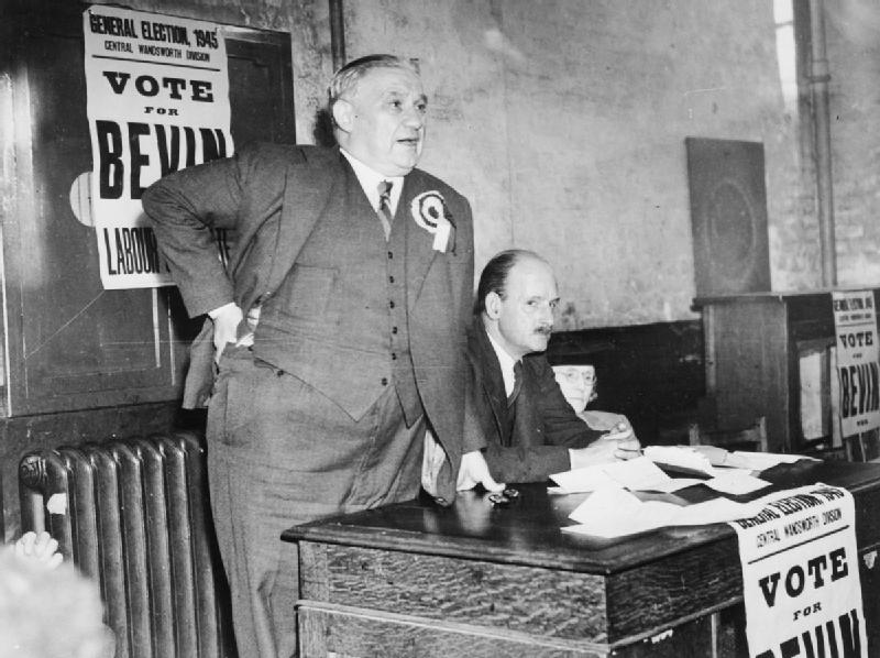 British Political Personalities 1936-1945 The 1945 General Election: Ernest Bevin addressing a mass meeting in the division of Central Wandsworth where he was a candidate.